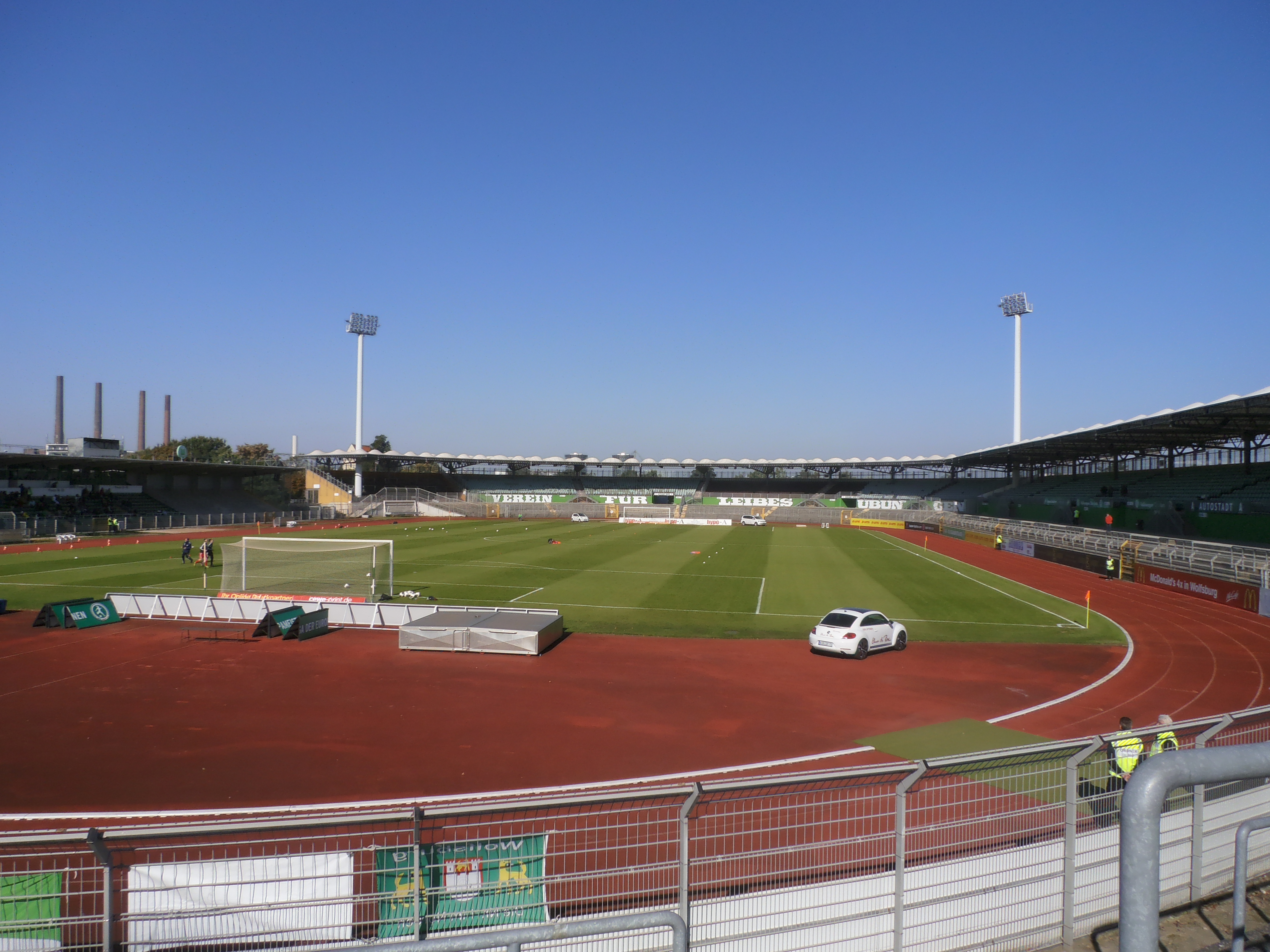 VfL-Stadion before Frauen-Bundesliga match VfL Wolfsburg against VfL Sindelfingen